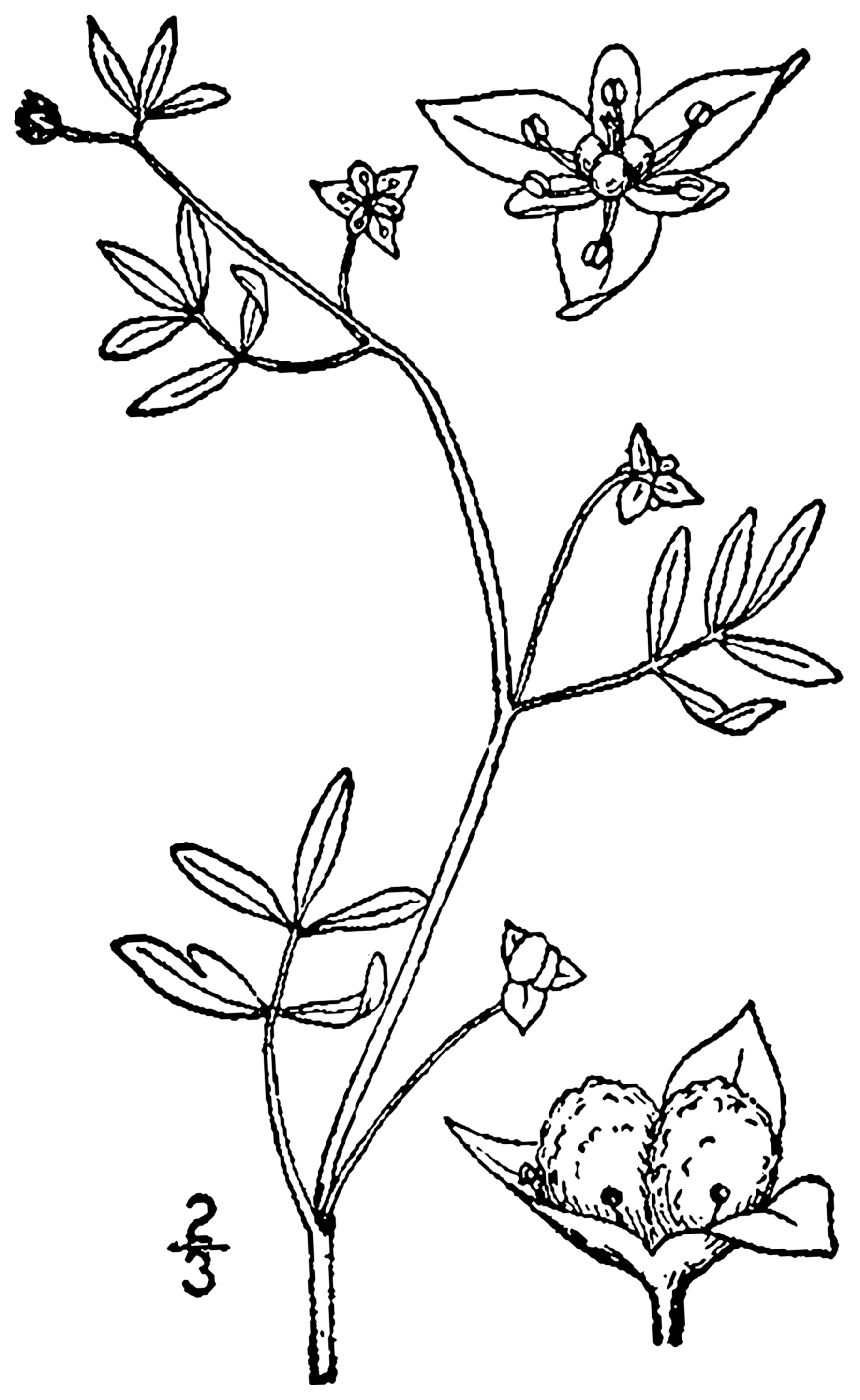 Floerkea proserpinacoides Willd. - false mermaidweed